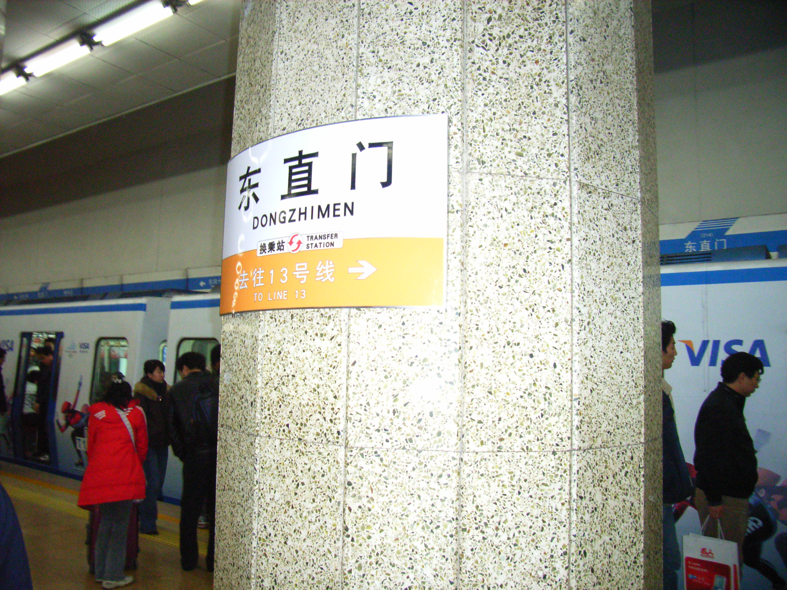 Beijing Subway Dongzhimen Station 北京地铁东直门站 photo by: user:吉恩